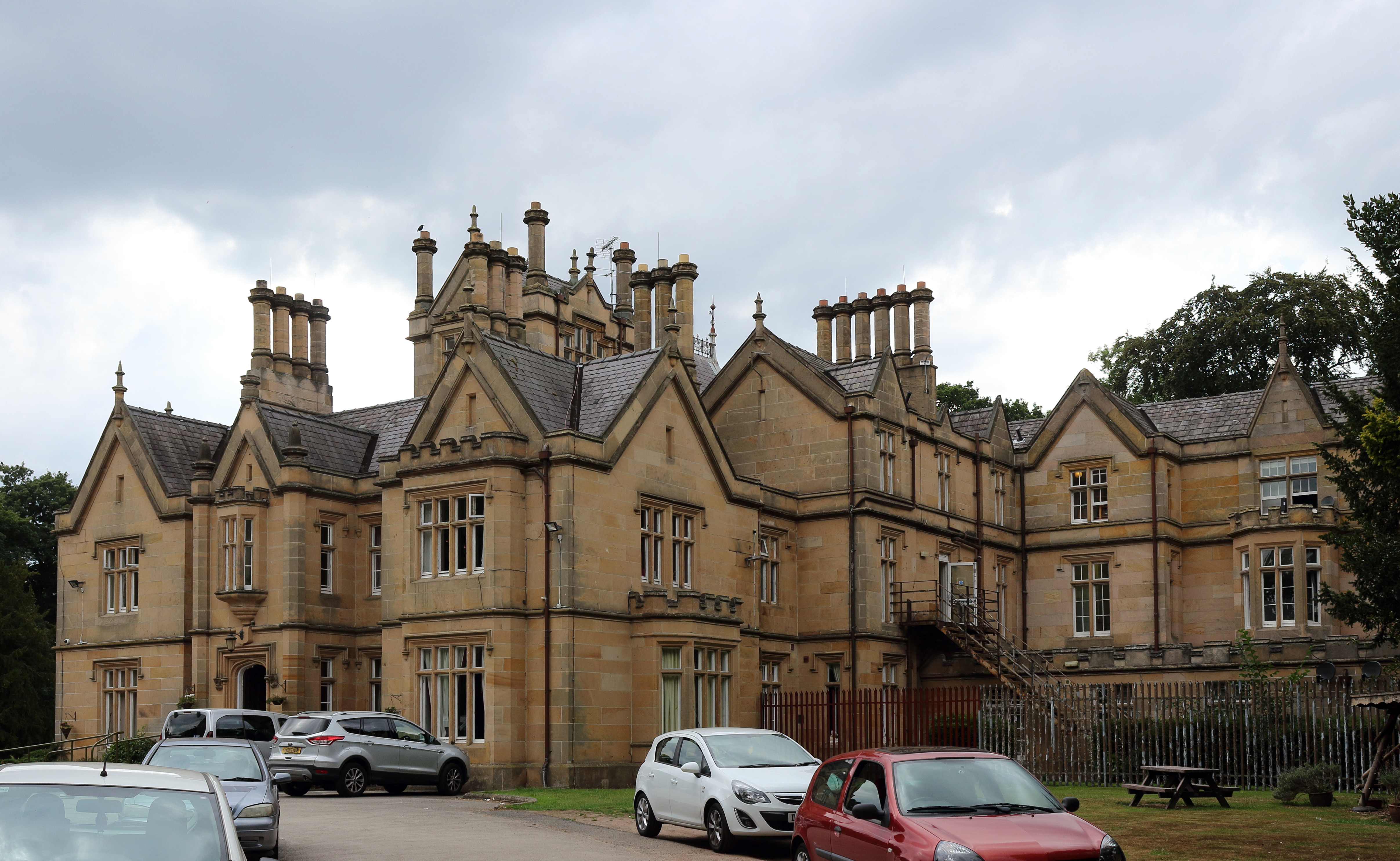 View from the driveway; Arrowe Hall is a Grade II listed building dated to 1835 and is now a home for vulnerable adults.